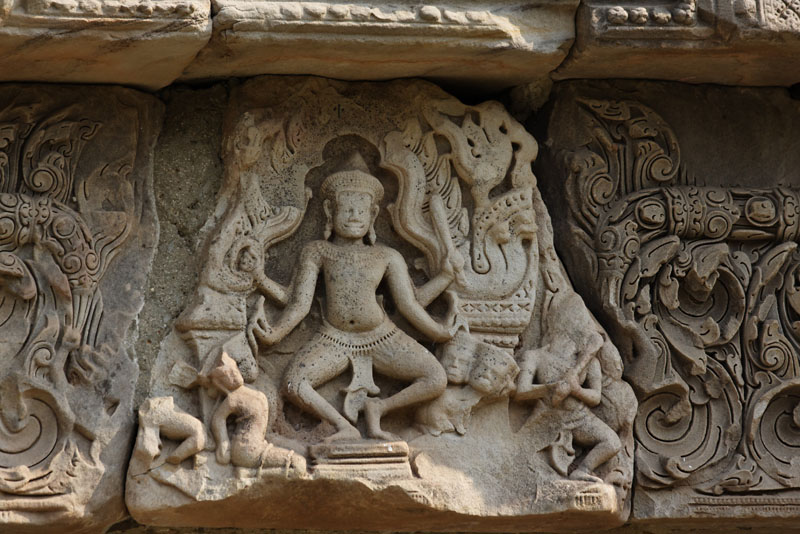 Lintel on top of the northern entry to the main shrine in the Phimai temple in Phimai historical park, Nakhon Ratchasima, Thailand. It shows a lintel over the north entrance to the shrine with a 4-armed dancing Vishnu.